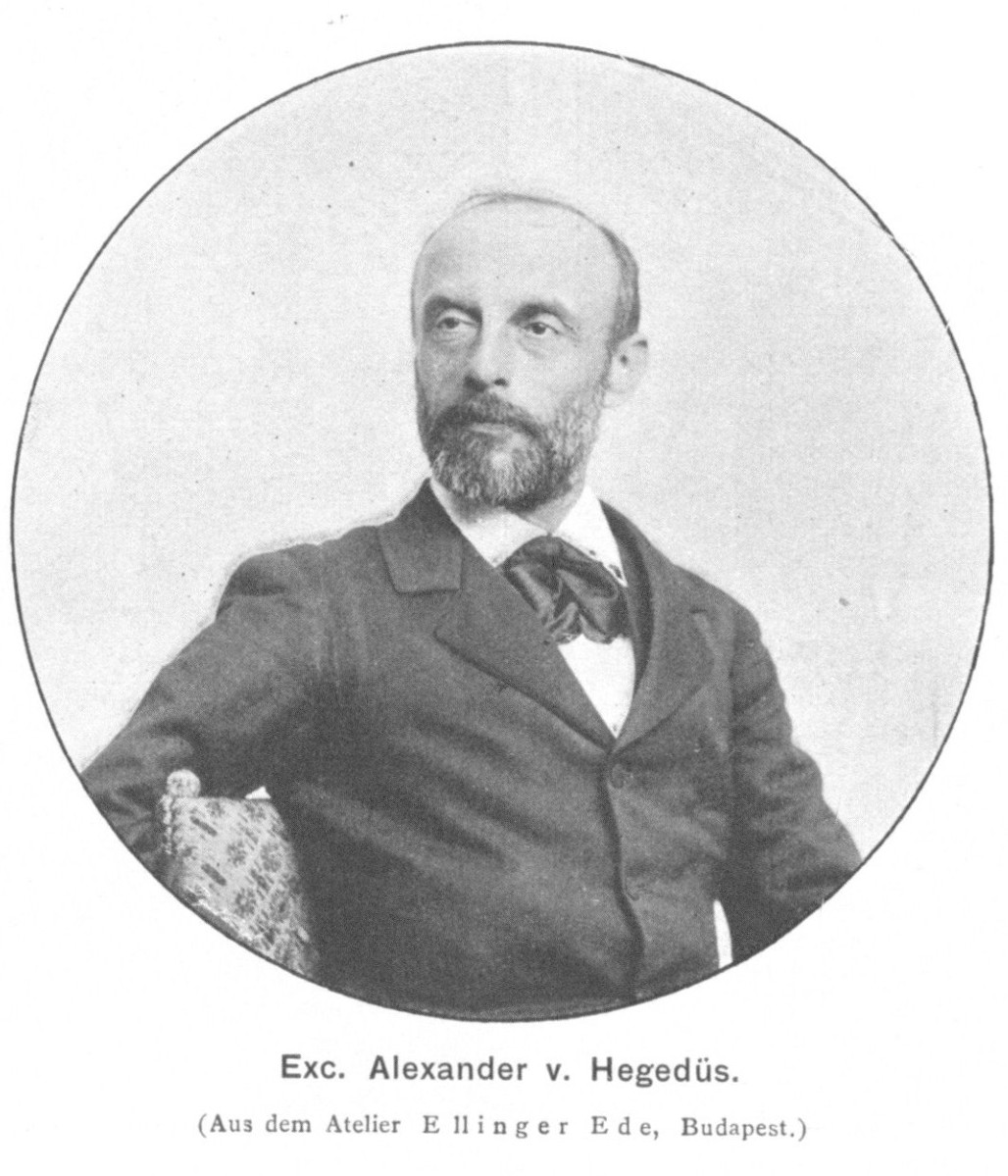 Portrait of Sándor Hegedüs (1847-1906), Hungarian politician.